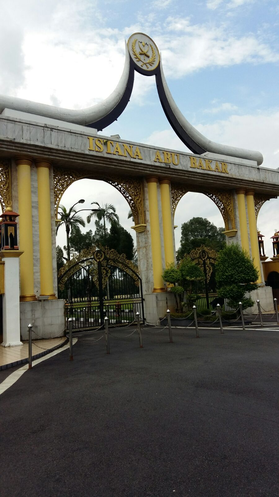 Abu Bakar Palace main gate in Pekan,Pahang, Malaysia.